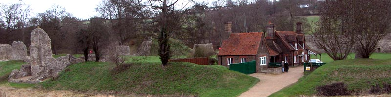 Berkhamsted Castle, taken 2003/12/28 11 am overcast; nikon 5700; showing Keepers house, ruinous walls, castle mound in background